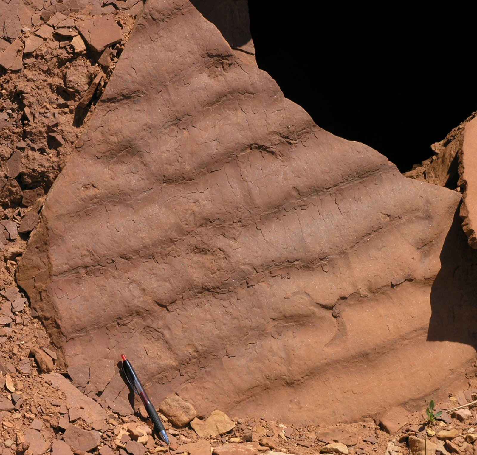 Photo taken by Daniel Mayer in late June 2005.